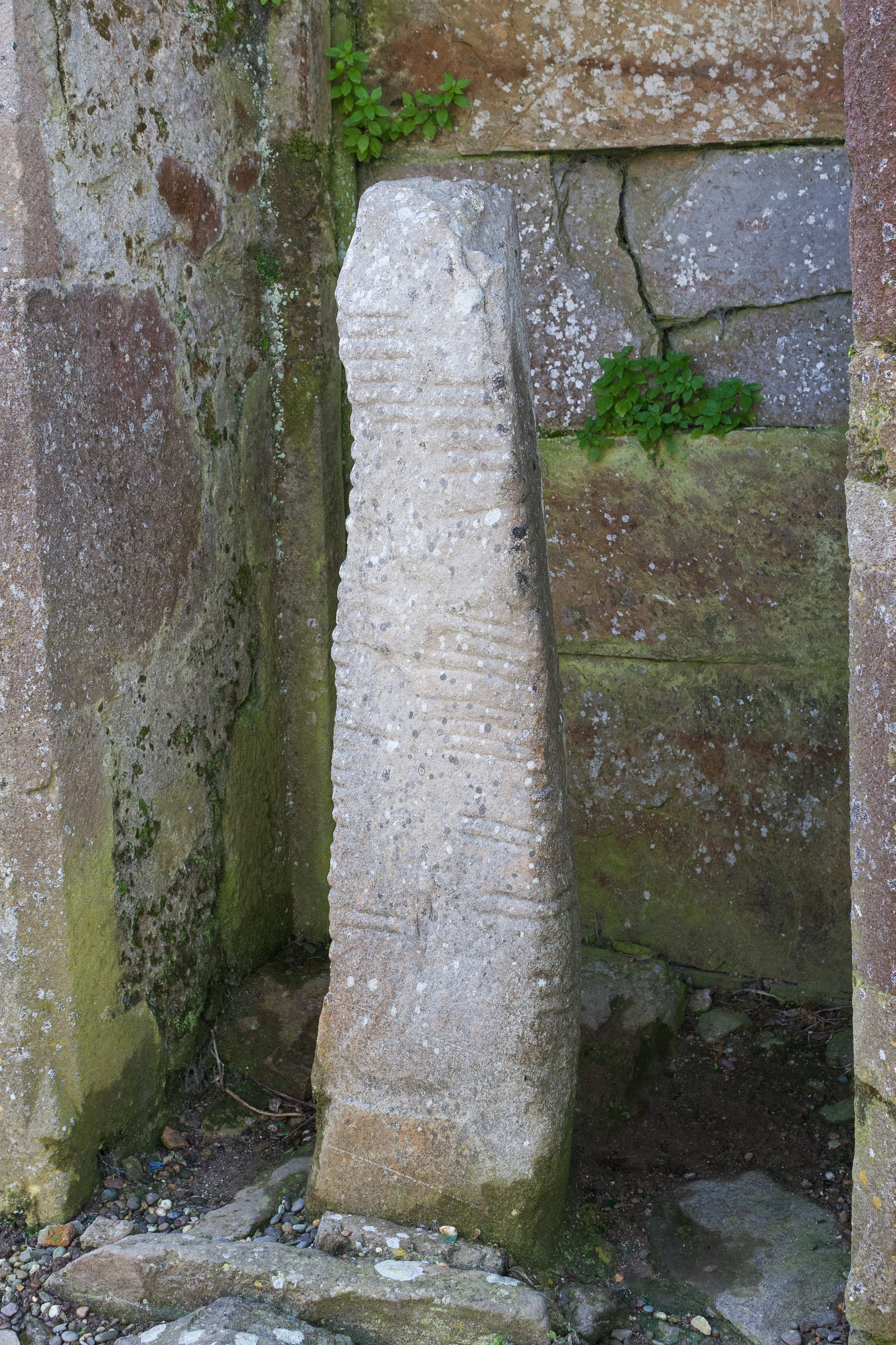 Ogham stone CIIC 263. Ardmore I, Co. Waterford in a wall-niche in the north wall of the choir. The stone was originally located in the east wall of St Declan’s Oratory from which it was removed c. 1855 (see record of the Archaeological Survey of Ireland). The transcription according to Macalister: “LUGUDECCAS MAQỊ/[ ̣ ̣ ? ̣ ̣MU]/COI NETA-SEGAMONAS/ DOLATI BIGAISGOB...” Which has been translated to 'of Luguid son of ...? descendant of Nad-Segamon'.